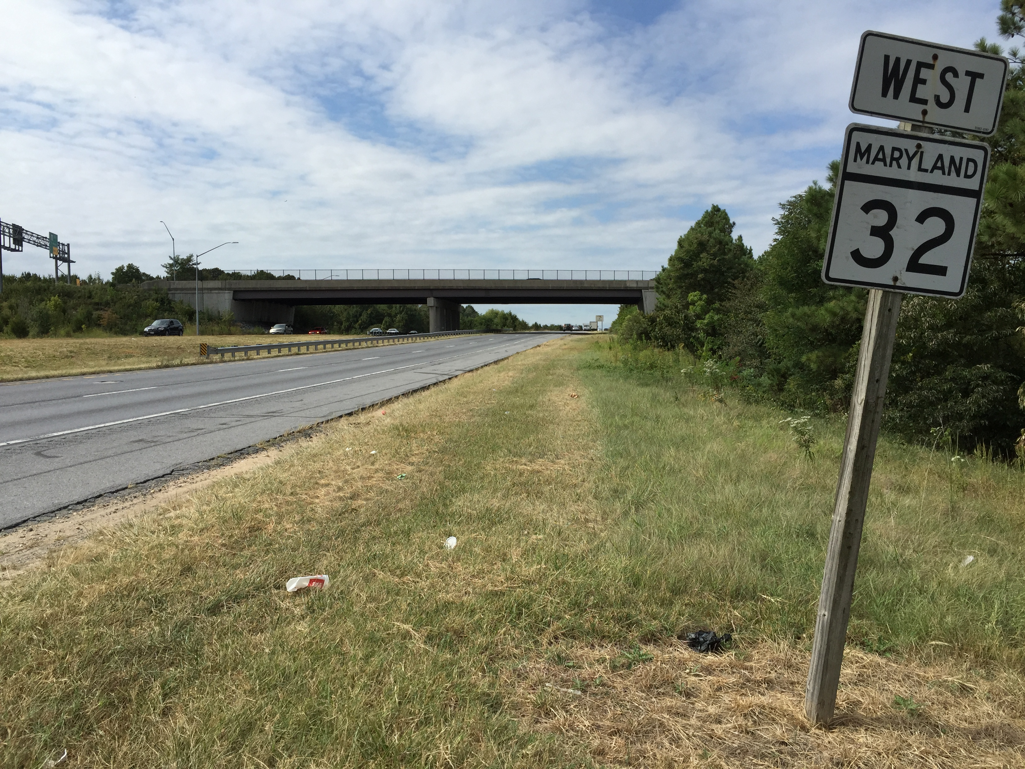 View west along Maryland State Route 32 (Patuxent Freeway) at Dorsey Run Road, just east of Savage in Howard County, Maryland